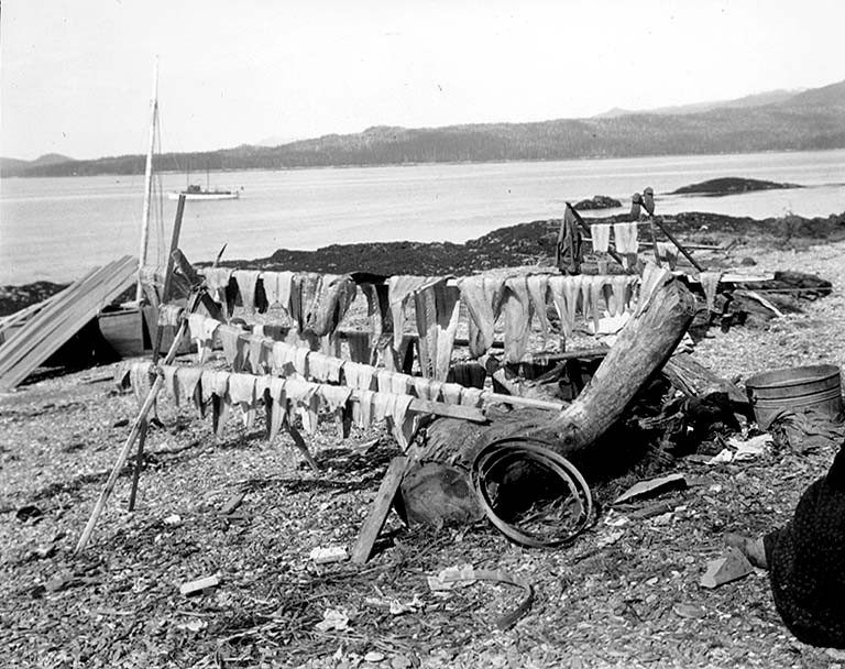 From John Cobb field notebook: Temporary camp of king salmon trollers at Vallenar Point, Alaska. June 2, 1902 . Shows fish drying racks. Subjects (LCTGM): Work camps--Alaska--Vallenar Point Subjects (LCSH): Salmon industry--Alaska--Vallenar Point; Fish drying--Alaska--Vallenar Point; Food--Preservation--Alaska--Vallenar Point